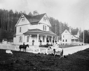 This is the corrected view of a photo already existing on wikipedia.